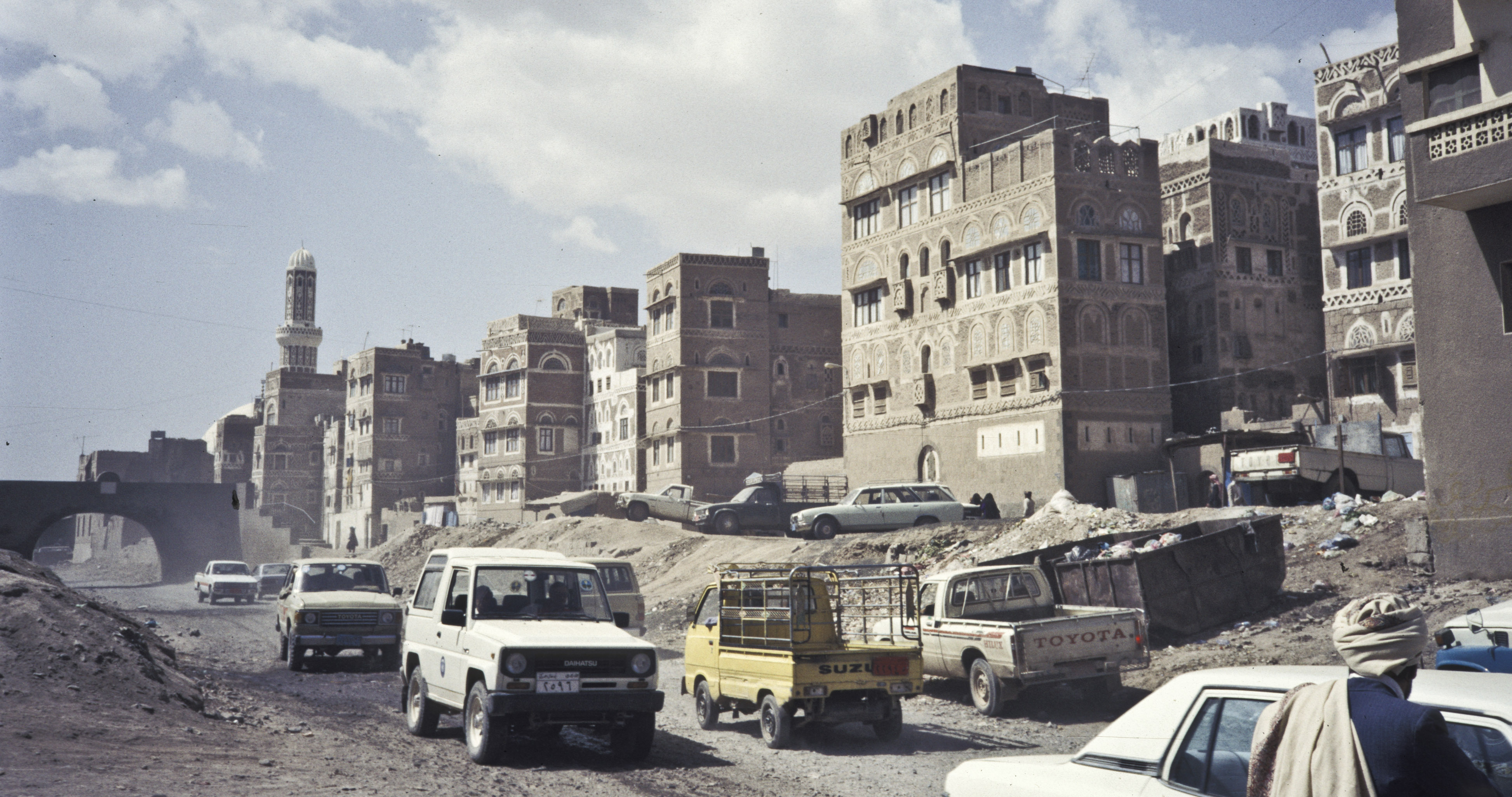 Yemen. Sanaa. Al-Mahdi mosque behind the buildings.